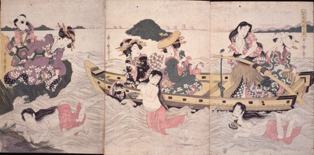 Abalone Fishing at Enoshima - Ukiyo-e triptych print